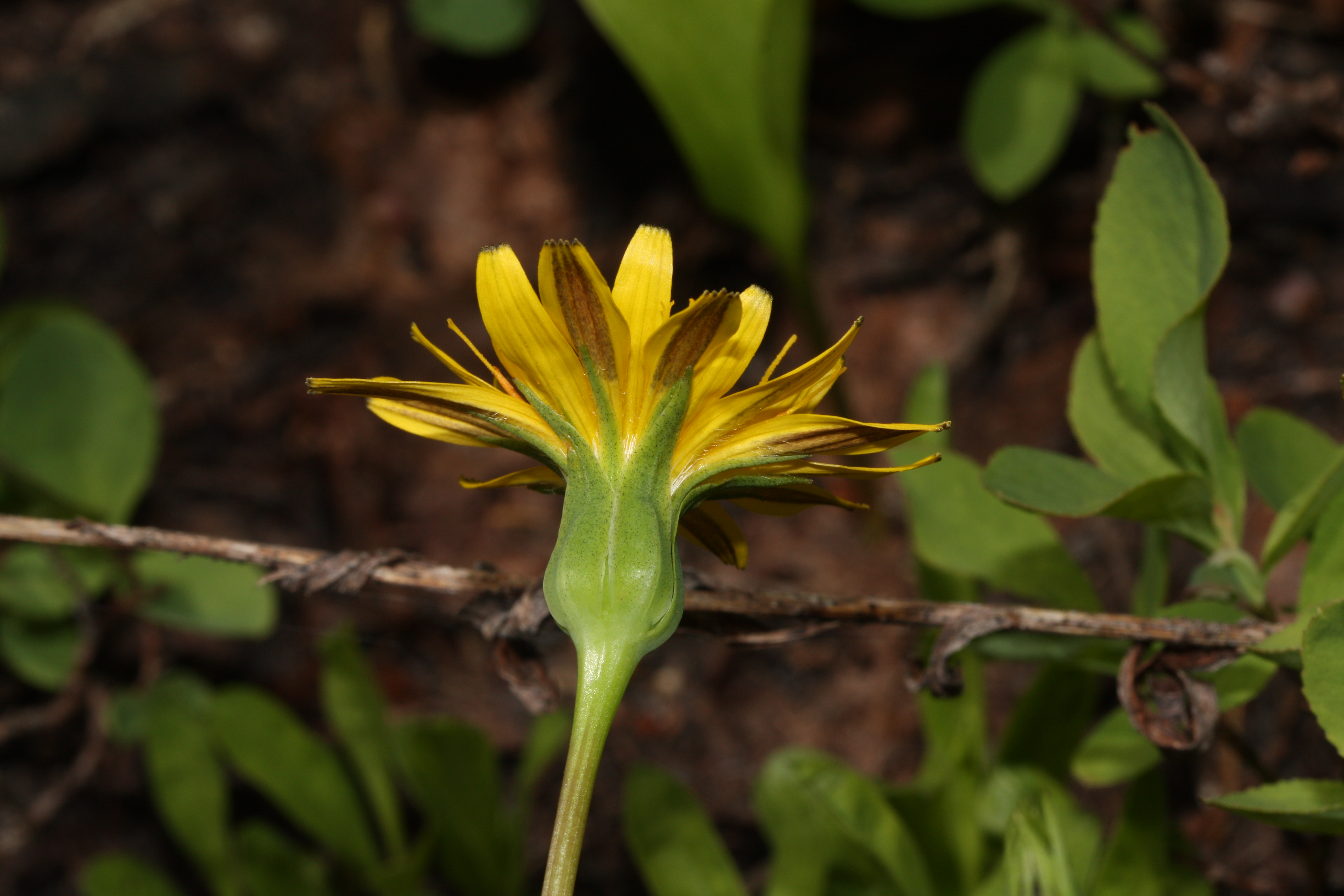 Alpine Lake Prairie-dandelion, Alpine Lake Agoseris